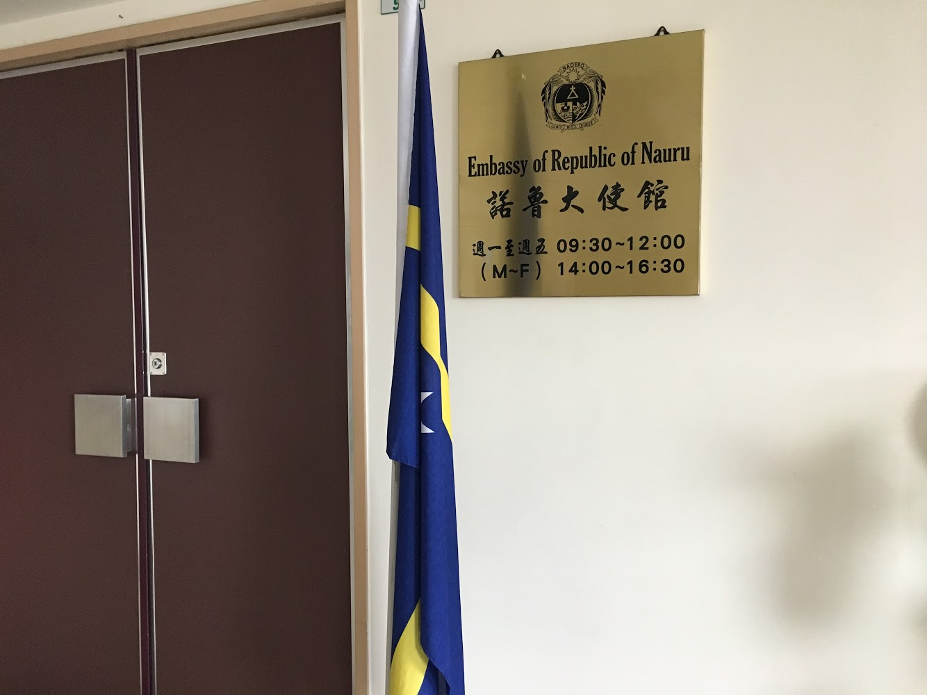 The world's first and only Nauruan embassy in the Republic of China (Taiwan) 中文（台灣）: 諾魯駐中華民國（臺灣）大使館，世界上第一個和惟一的諾魯大使館